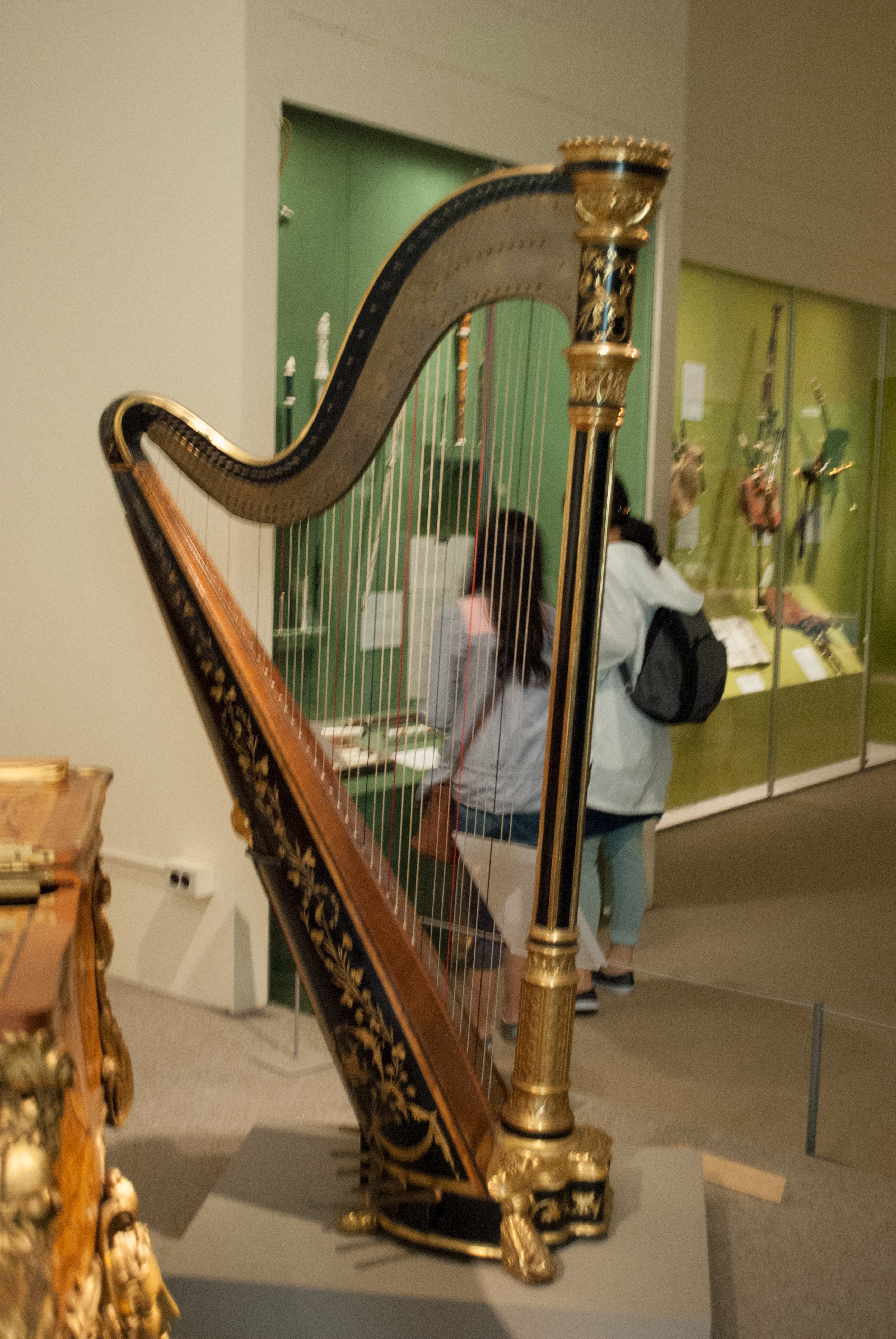 Harp, Metropolitan Museum of Art Pedal Harp (1891-95), Lyon & Healy, The Met, NYC Pedal Harp Lyon & Healy (American, Chicago, Illinois) Accession Number: 2001.171 Date: 1891–95 Geography: Chicago, Illinois, United States Medium: Wood, metal Dimensions: H. 178 cm (70-1/8 in.), D. 94 cm (37 in.) Classification: Chordophone-Harp Credit Line: Purchase, Clara Mertens Bequest, in memory of André Mertens, 2001 This artwork is not on display